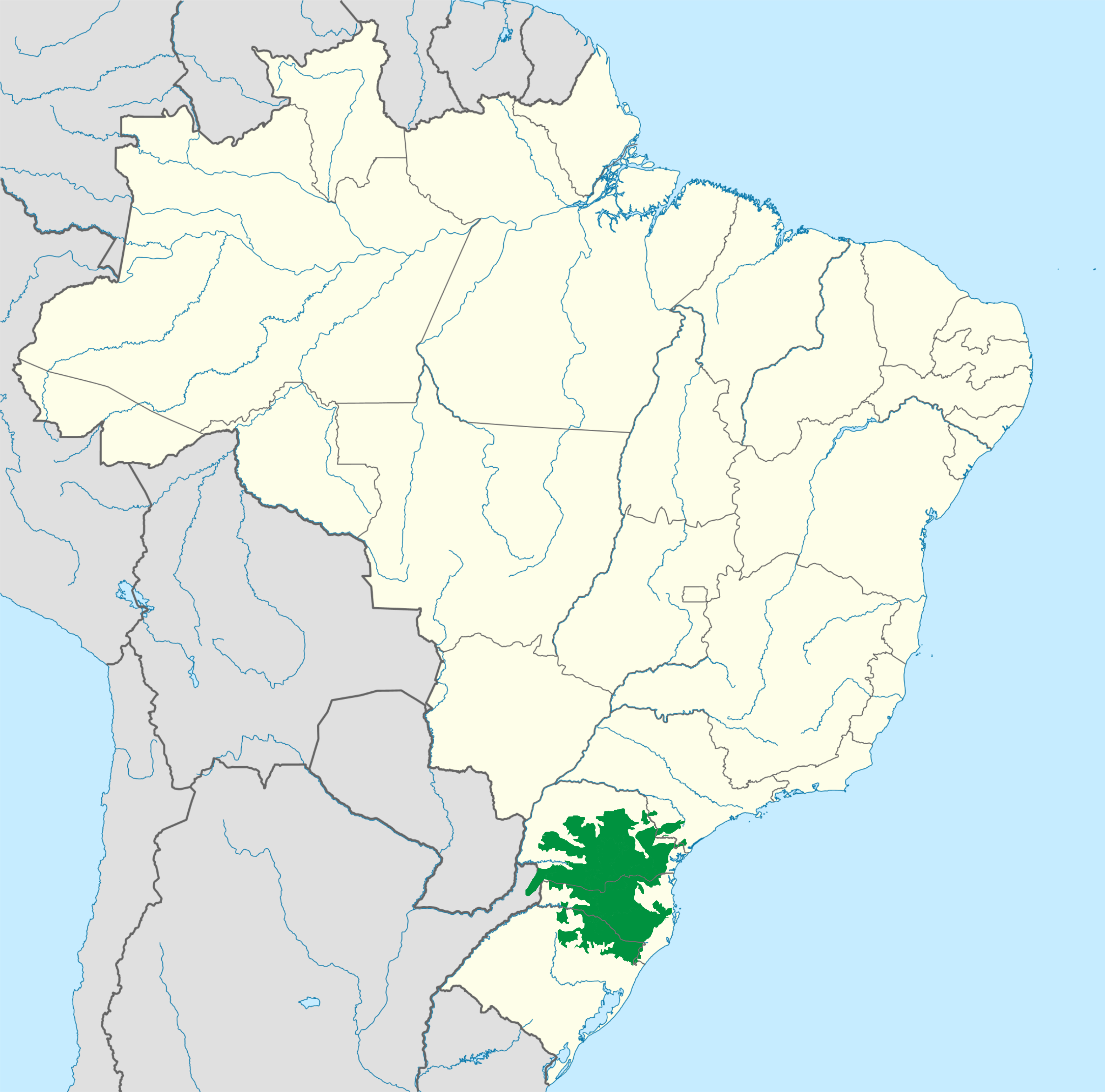 Approximate area of the Araucaria moist forests ecoregion — of the Atlantic Forest biome. As delineated by WWF.